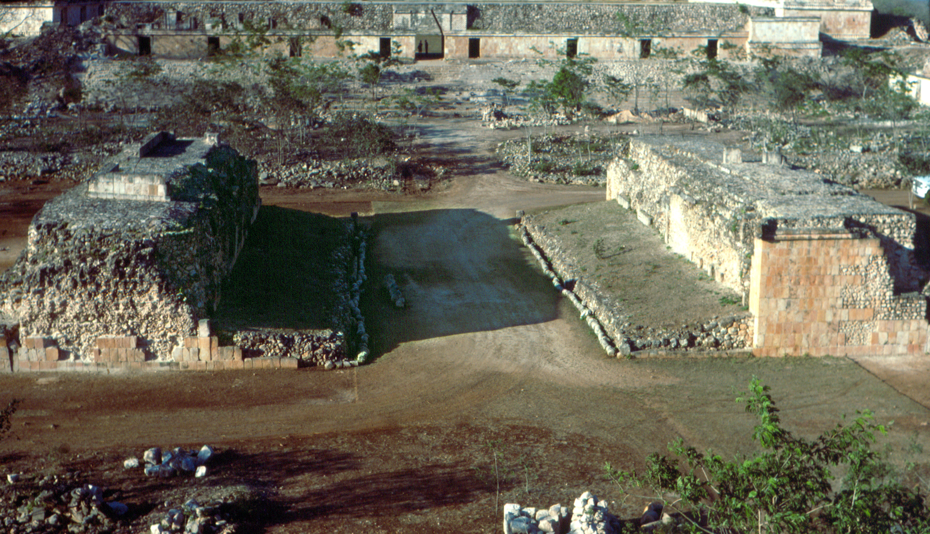 Uxmal, Yucatan, Mexico: Ballcourt.